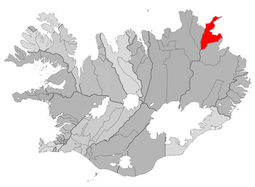 Based on Municipalities of Iceland.png.